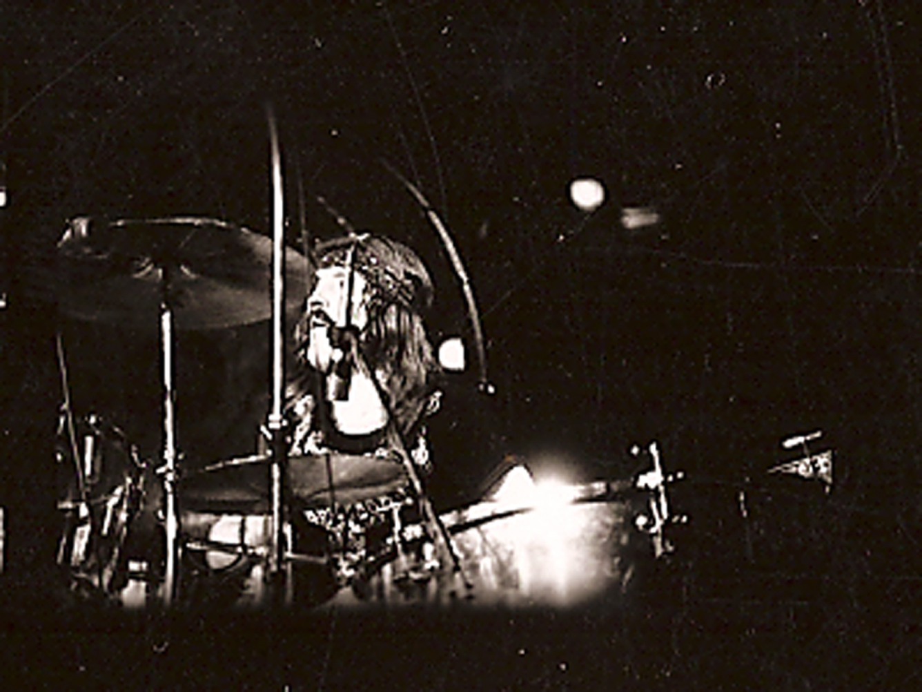 Bonzo: John Bonham I lost the negatives to the zep shots (still looking) so I had to scan the contact sheet, crop each shot (hence it being a bit blury). But these shots I believe were either taken at Madison Sq Garden or Nassau Coliseum with a Nikon F, and 400 asa bxw film, no flash.